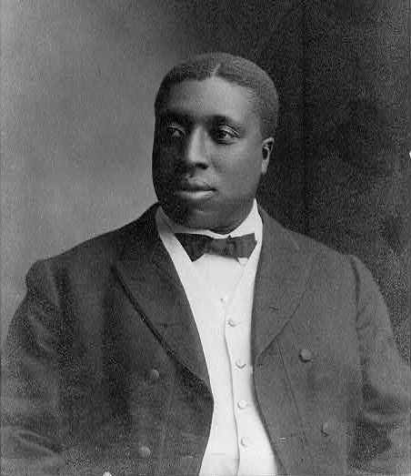 William Tecumseh Vernon